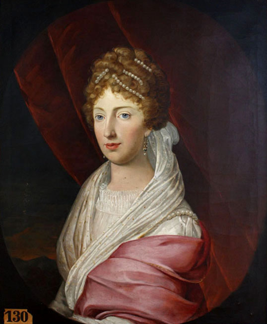 Posthumous portrait of Empress Maria Teresa (1772-1807), So-called portrait of Empress Caroline Augusta (1792-1873)